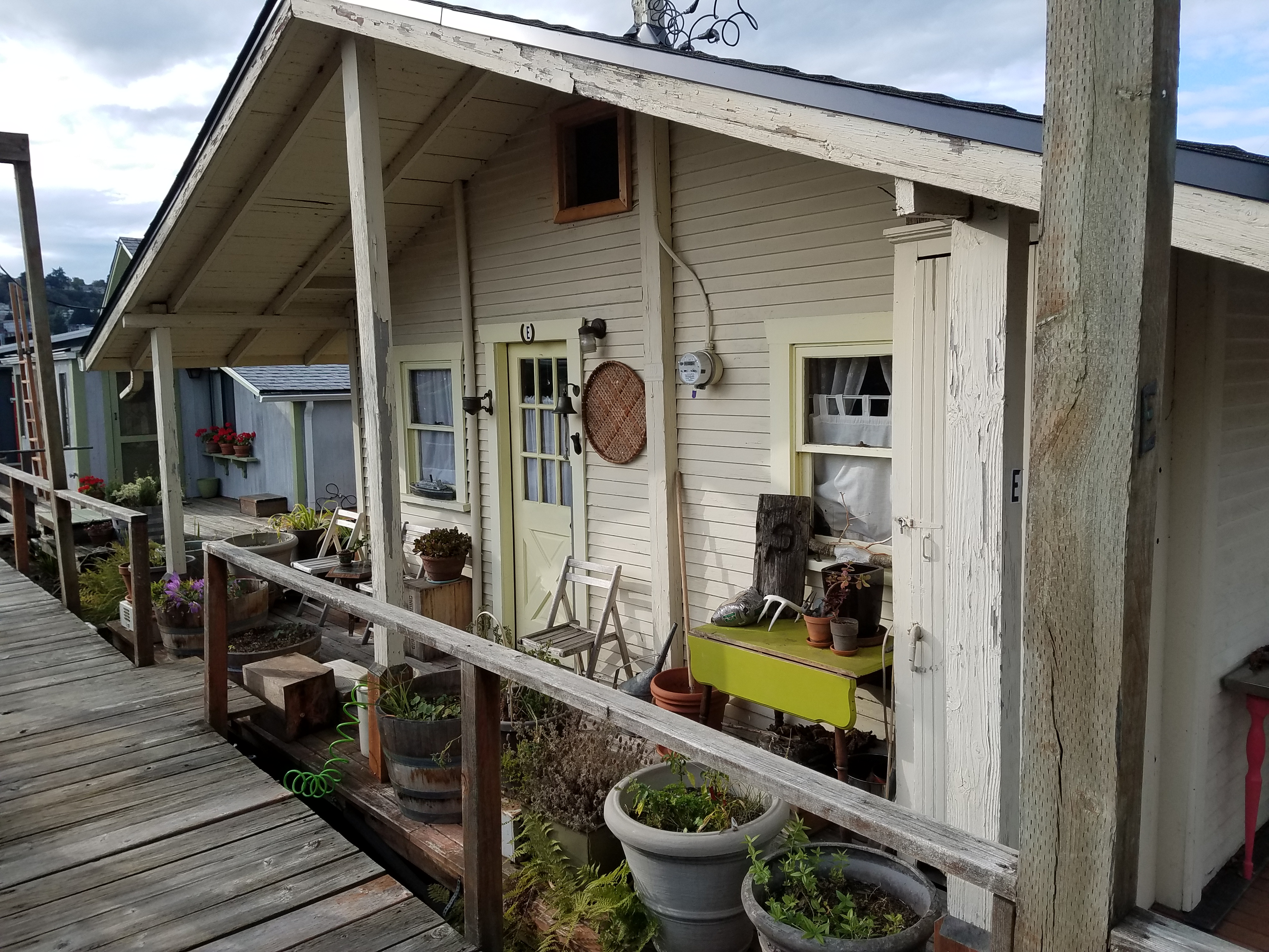 Bob West lived here 1972 to 2016